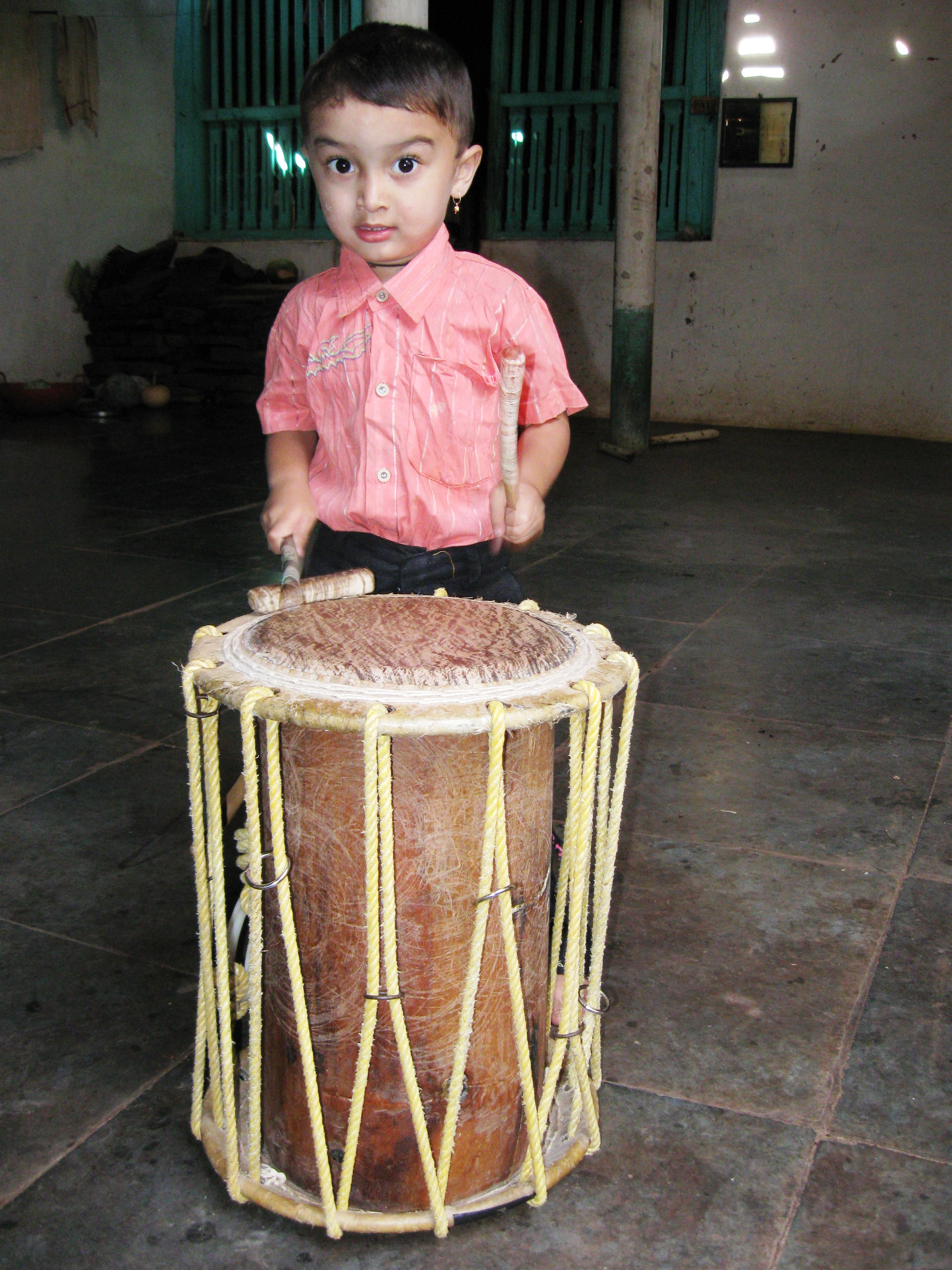 Photo of Yakshagana drum Chande. Taken at village of Kattinakere in Karnataka, India.